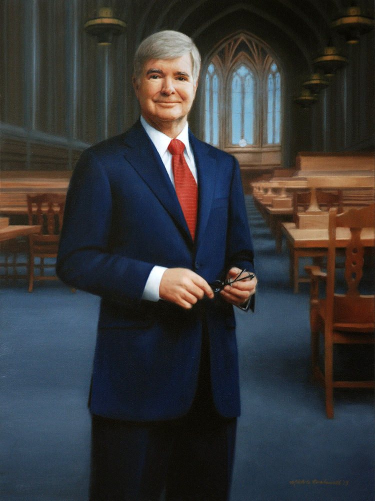 Mark Emmmert portrait painting by Michele Rushworth, oil on canvas, 40" x 30", depicted in the Suzzallo Library at the University of Washington.